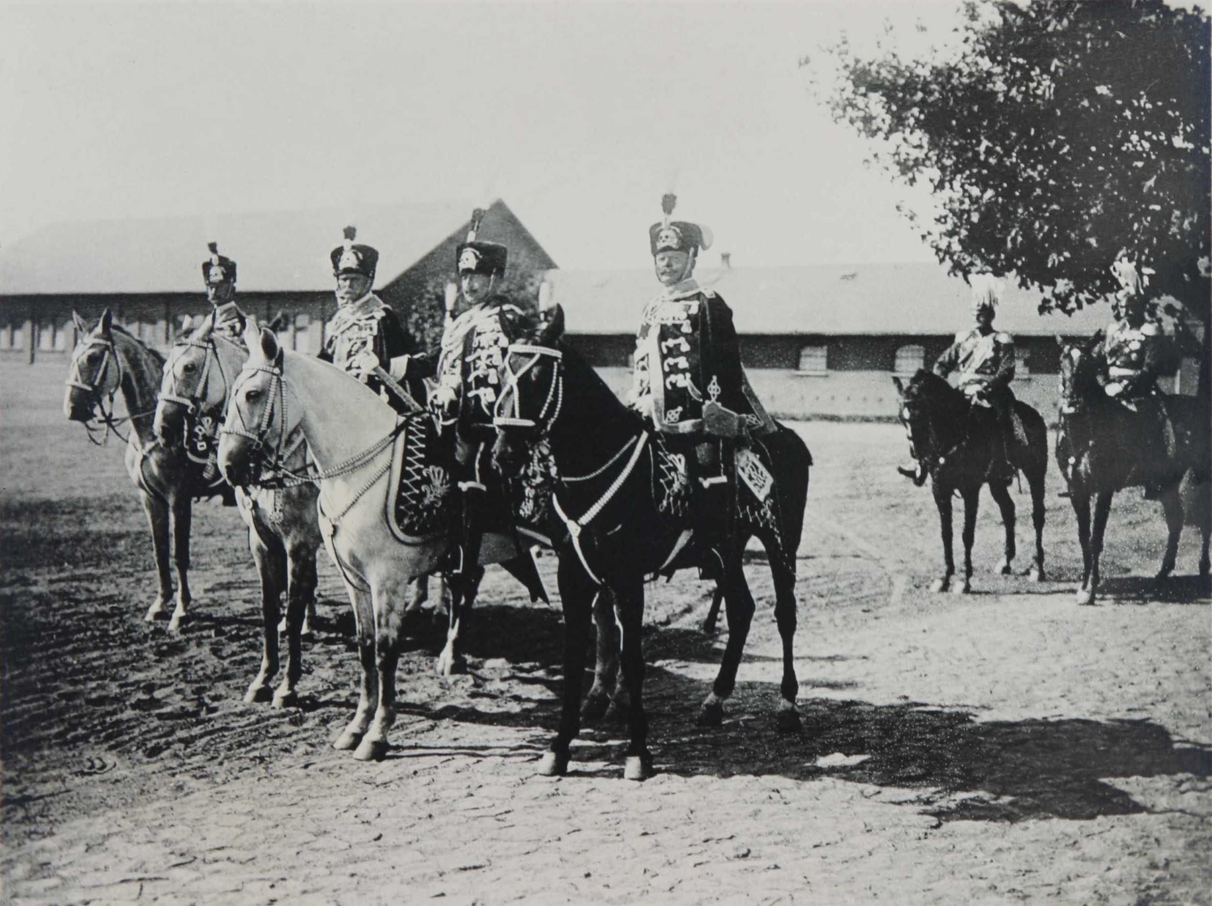 Opening ceremonial of Garnizon in Gdańsk Wrzeszcz in 1901 - emperor Wilhelm II with family and officers